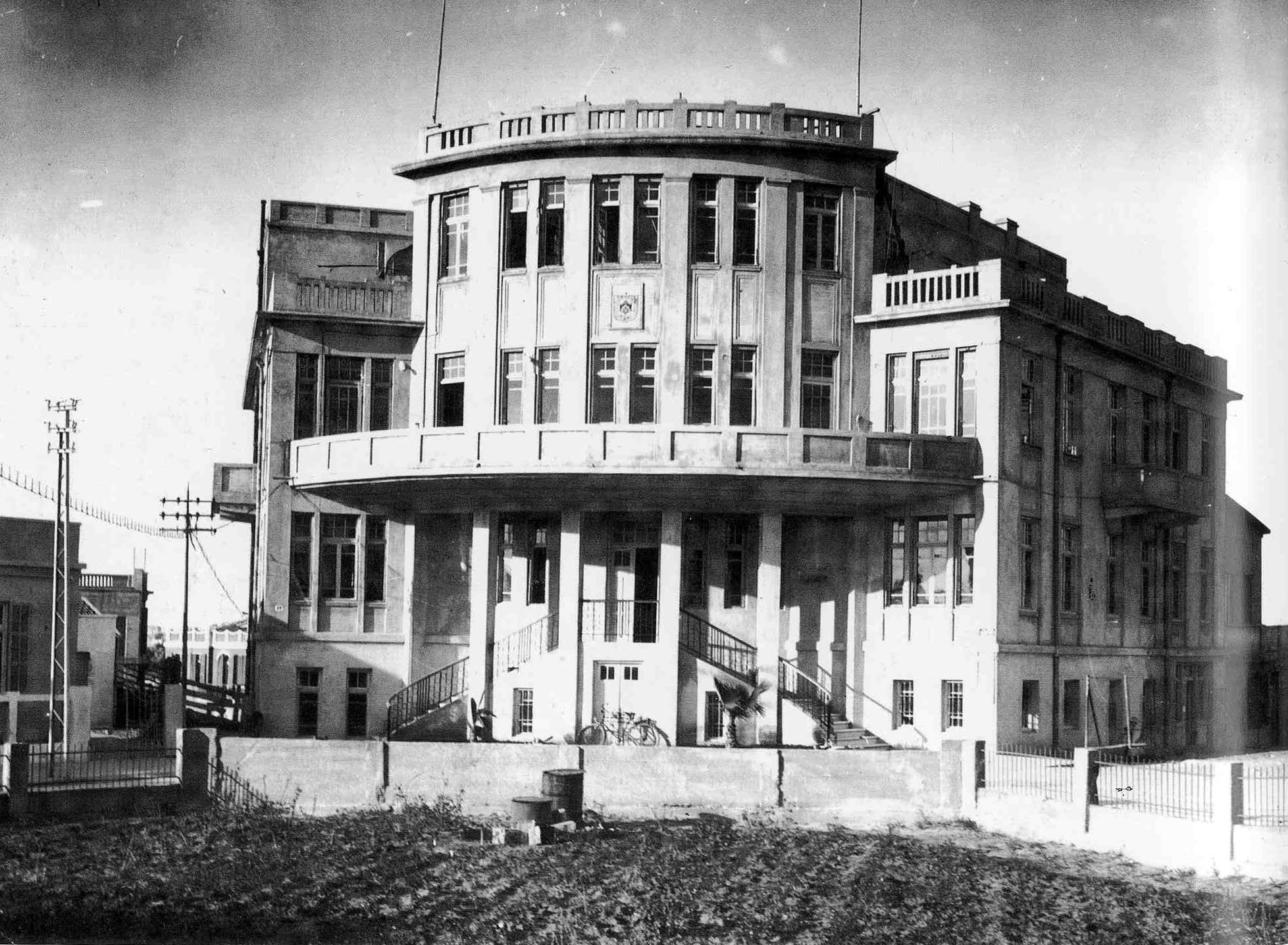 PH. Skora's Building, Late 1920' by A. Soskin.